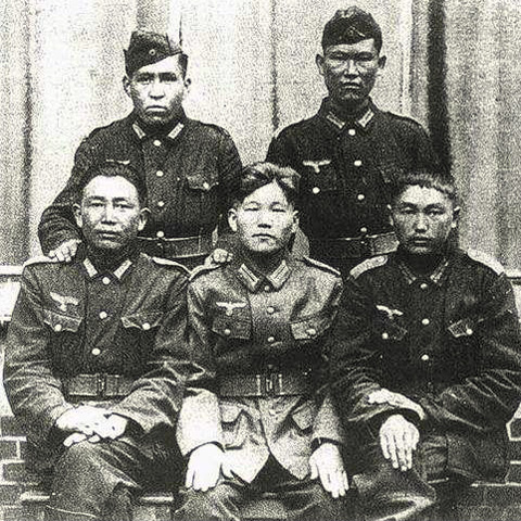 Koreans, Tartars, Chinese and other Asian soldiers in the Wehrmacht Heer.